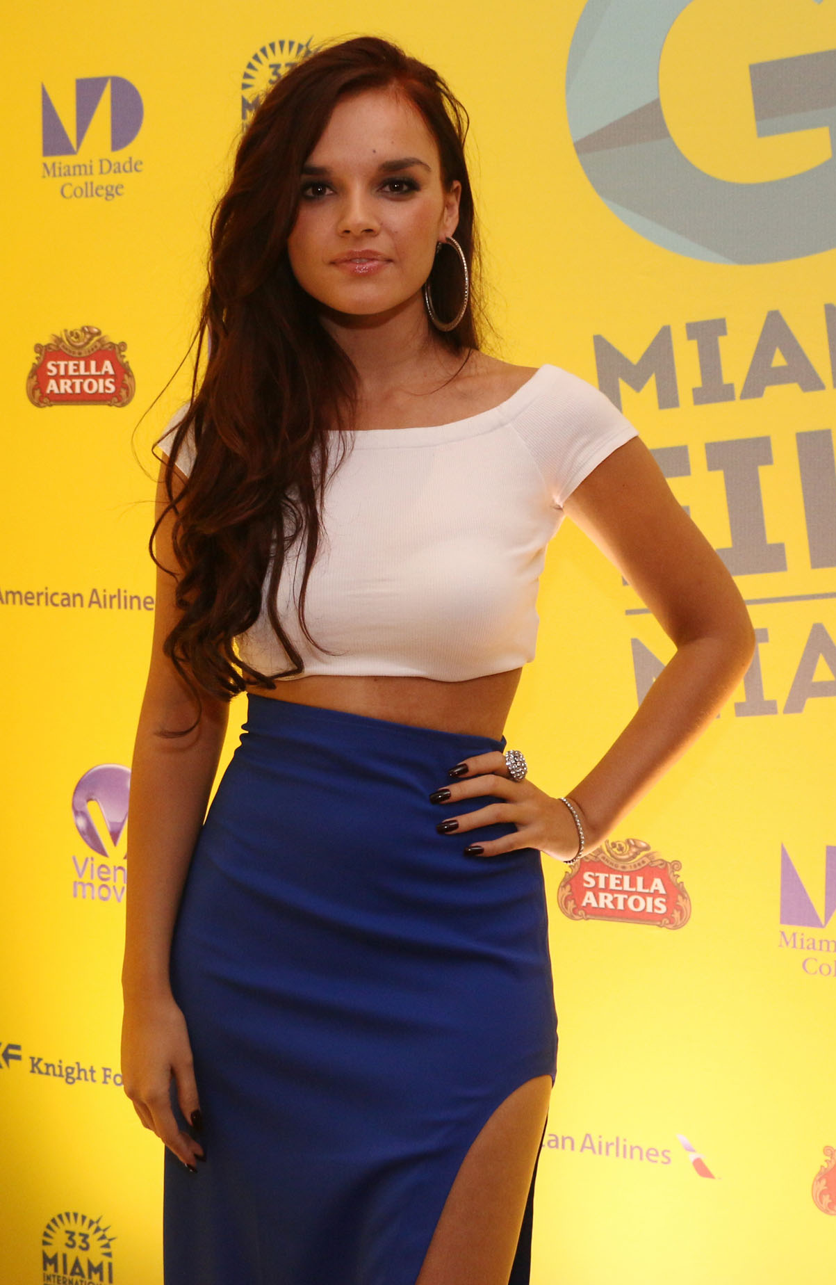 Spanish singer Melody at the Miami Film Festival